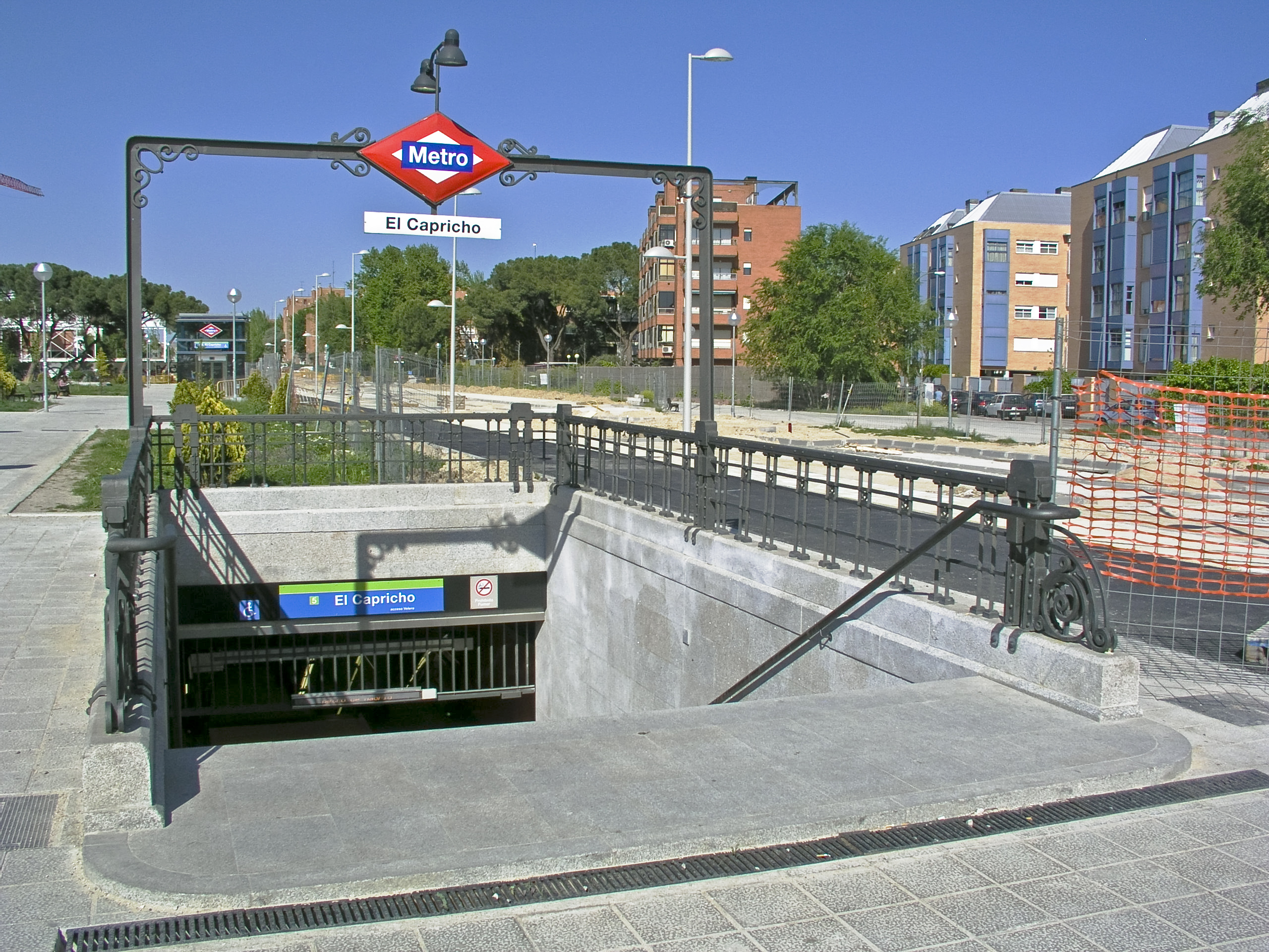 Madrid metro station, El Capricho. Spain.